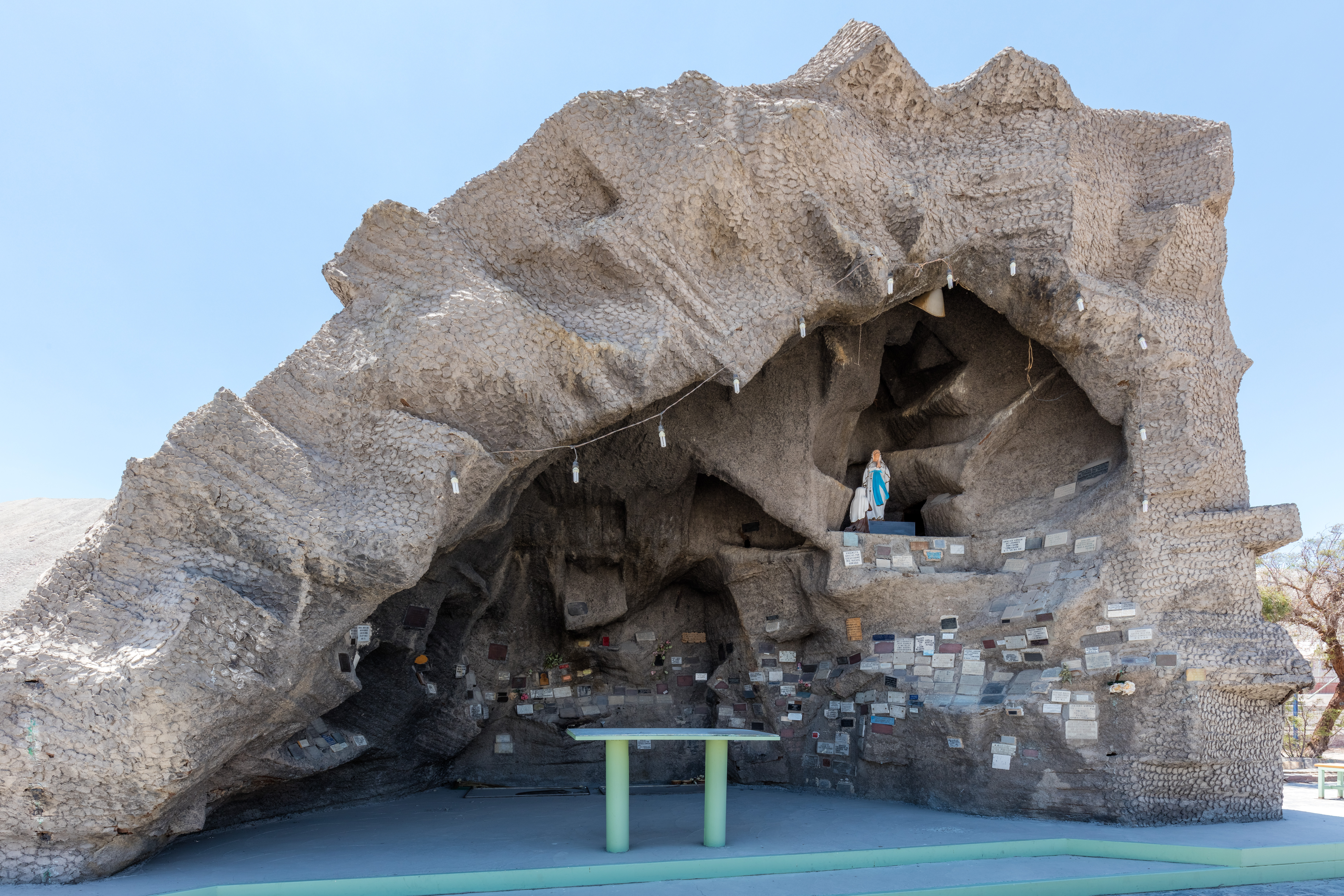 Chuquicamata town, Calama, Chile